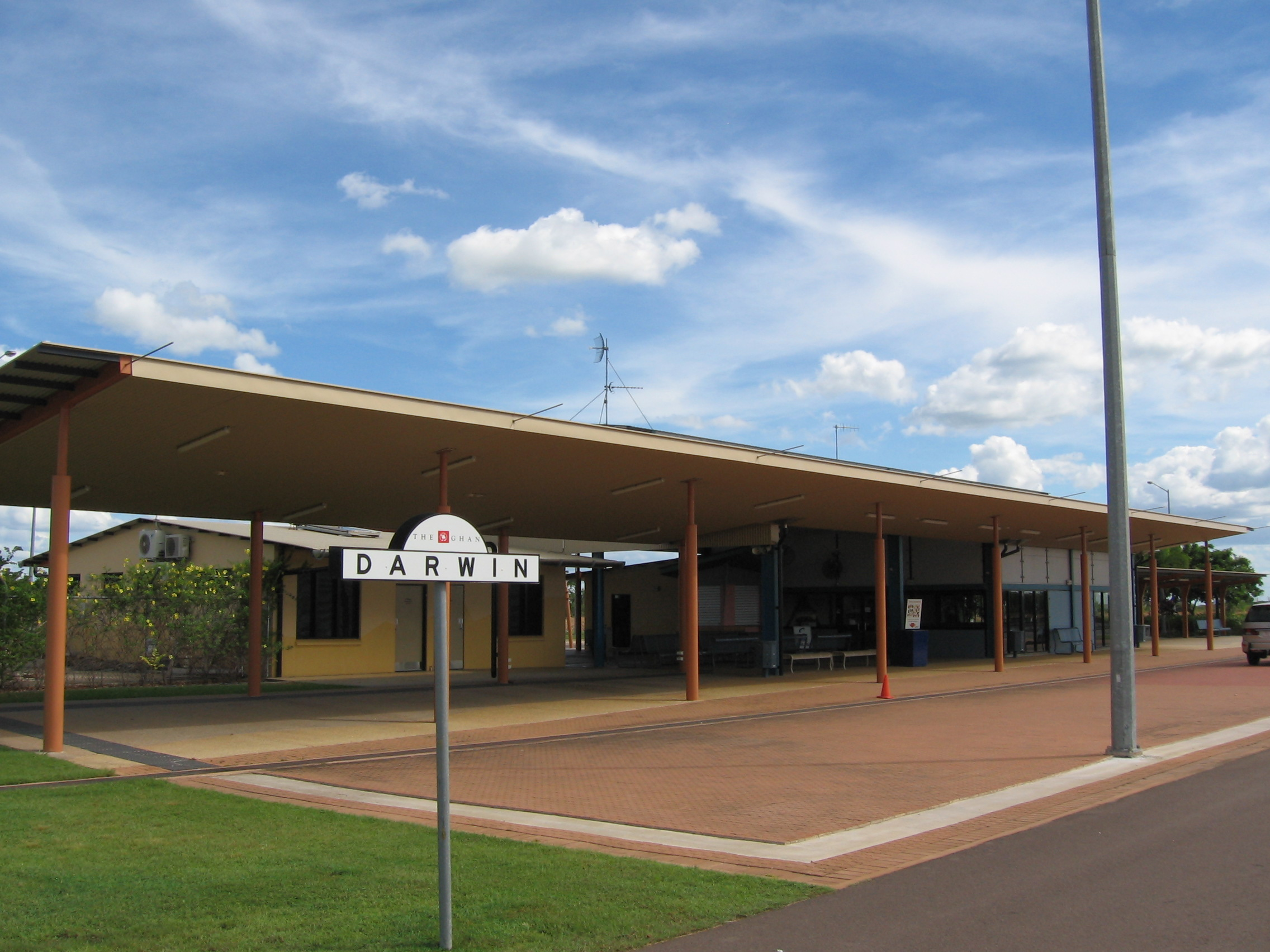 View from platform, train station at Darwin, Northern Territory